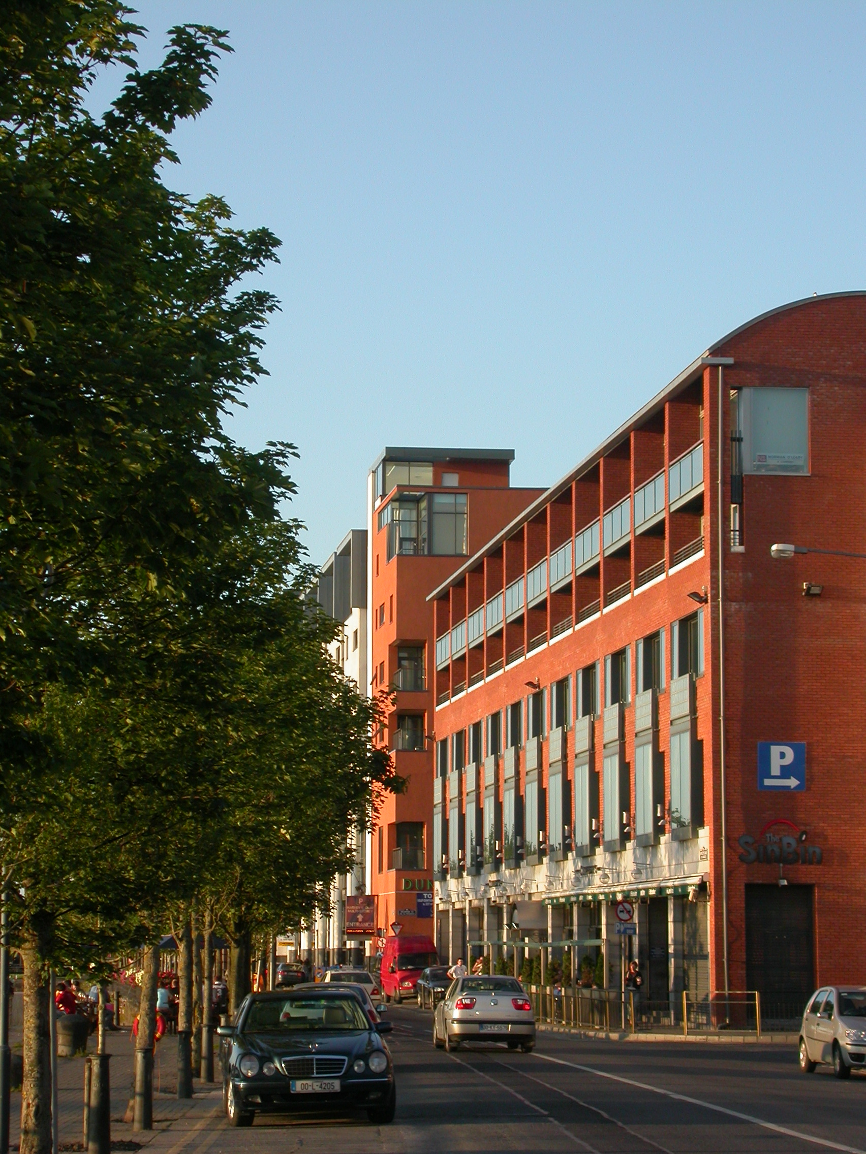 Foirgnimh nua ar Che an Easpaig, Luimneach, togtha i 2005 ag Sean an Scuab